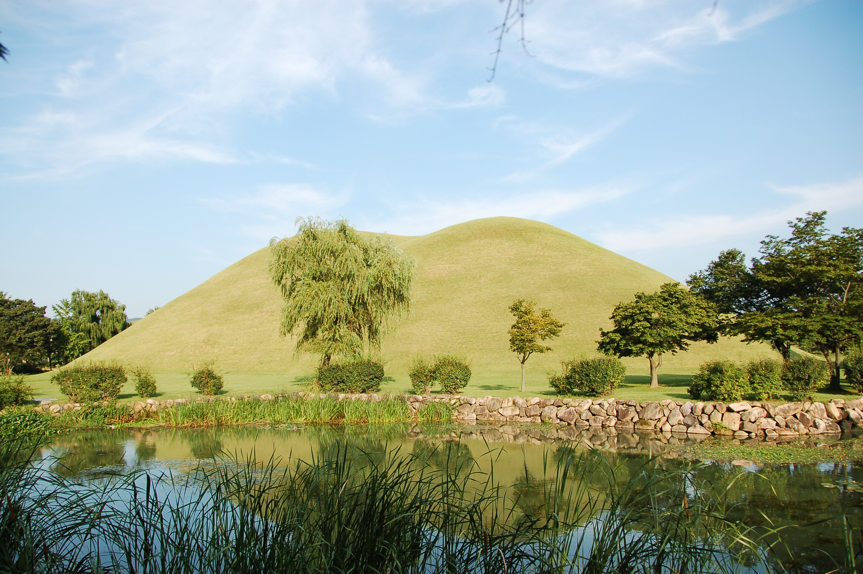 Tumuli Park or called Daeneungwon in Korean (literally "Garden of Great Tombs") at Hwangnam-dong, Gyeongju is the largest tomb complex in Korea including 23 Silla tombs in total. It contains Cheonmachong ("Tomb of the Heavenly Horse"), Hwangnam daechong, King Michu's tomb and others.